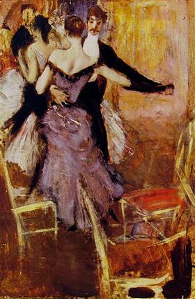 Work by Giovanni Boldini